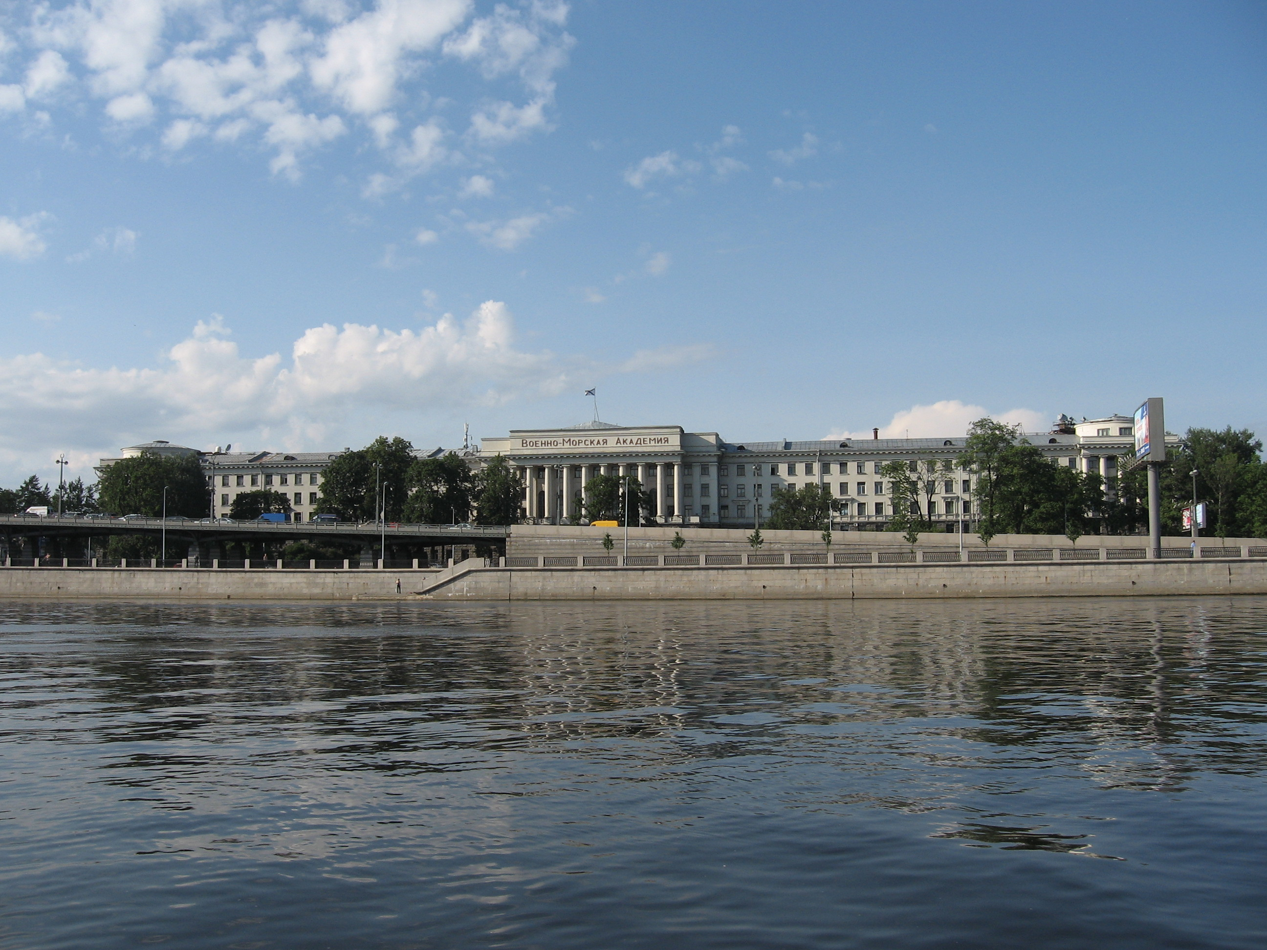 Kuznetsov Naval Academy in St.Petersburg, Russia